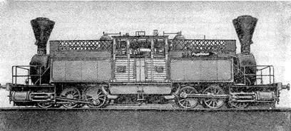 Russian tank locomotive F series (Fairlie system)